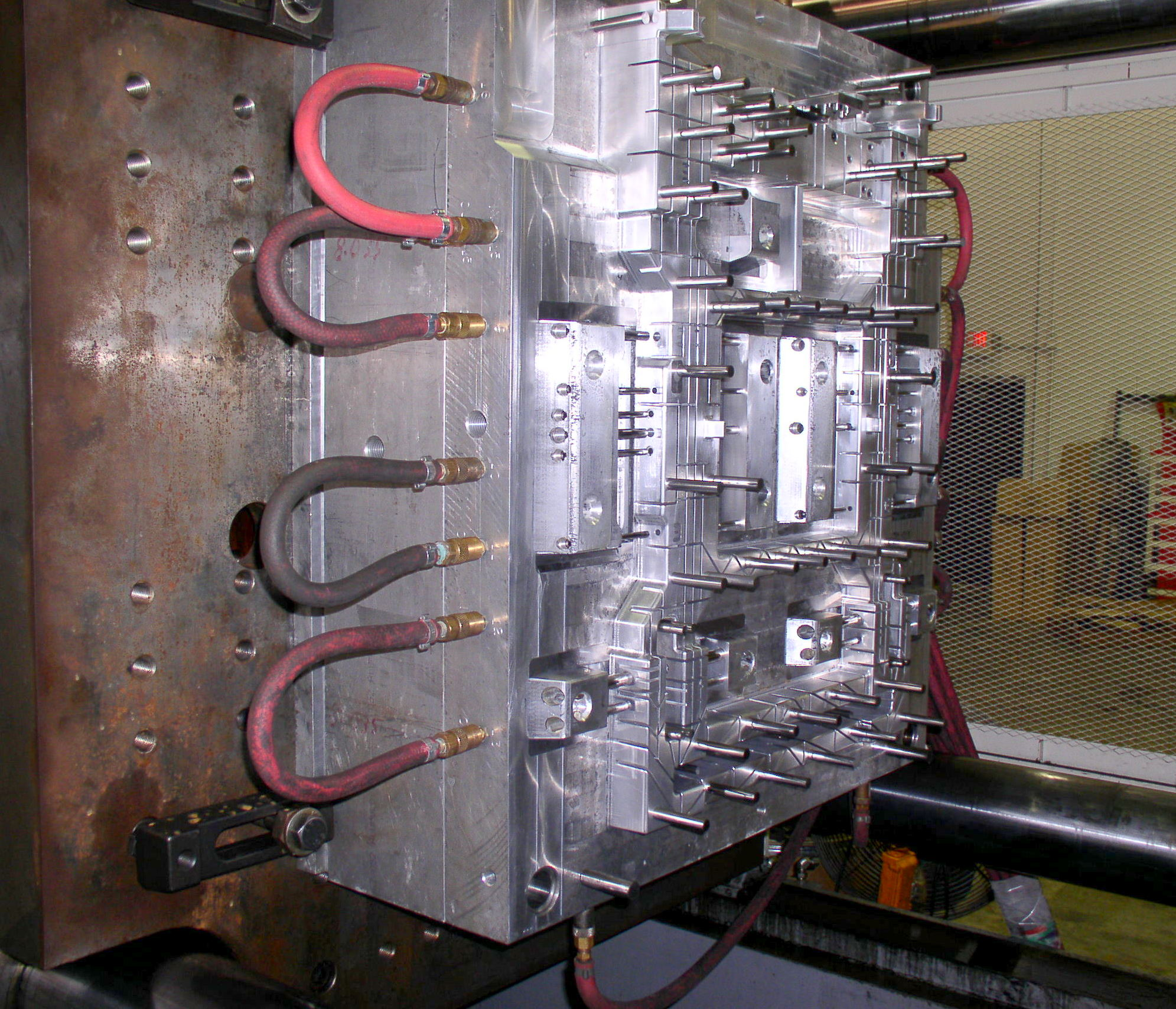 HTS Systems hand truck locking system injection mold.